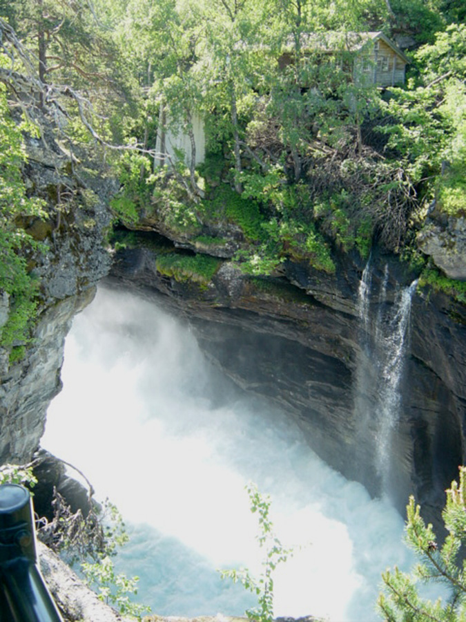 Rauma and the Slettafoss